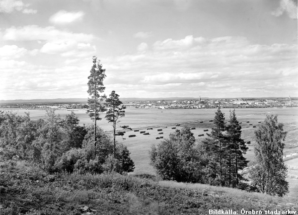 Sörbybacken outside Örebro, Sweden